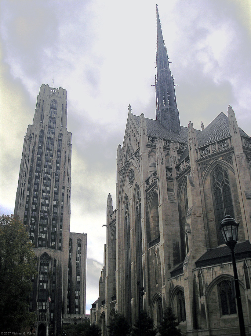 The Cathedral of Learning prior to its 2007 cleaning with Heinz Memorial Chapel at the University of Pittsburgh. photo by Michael G White